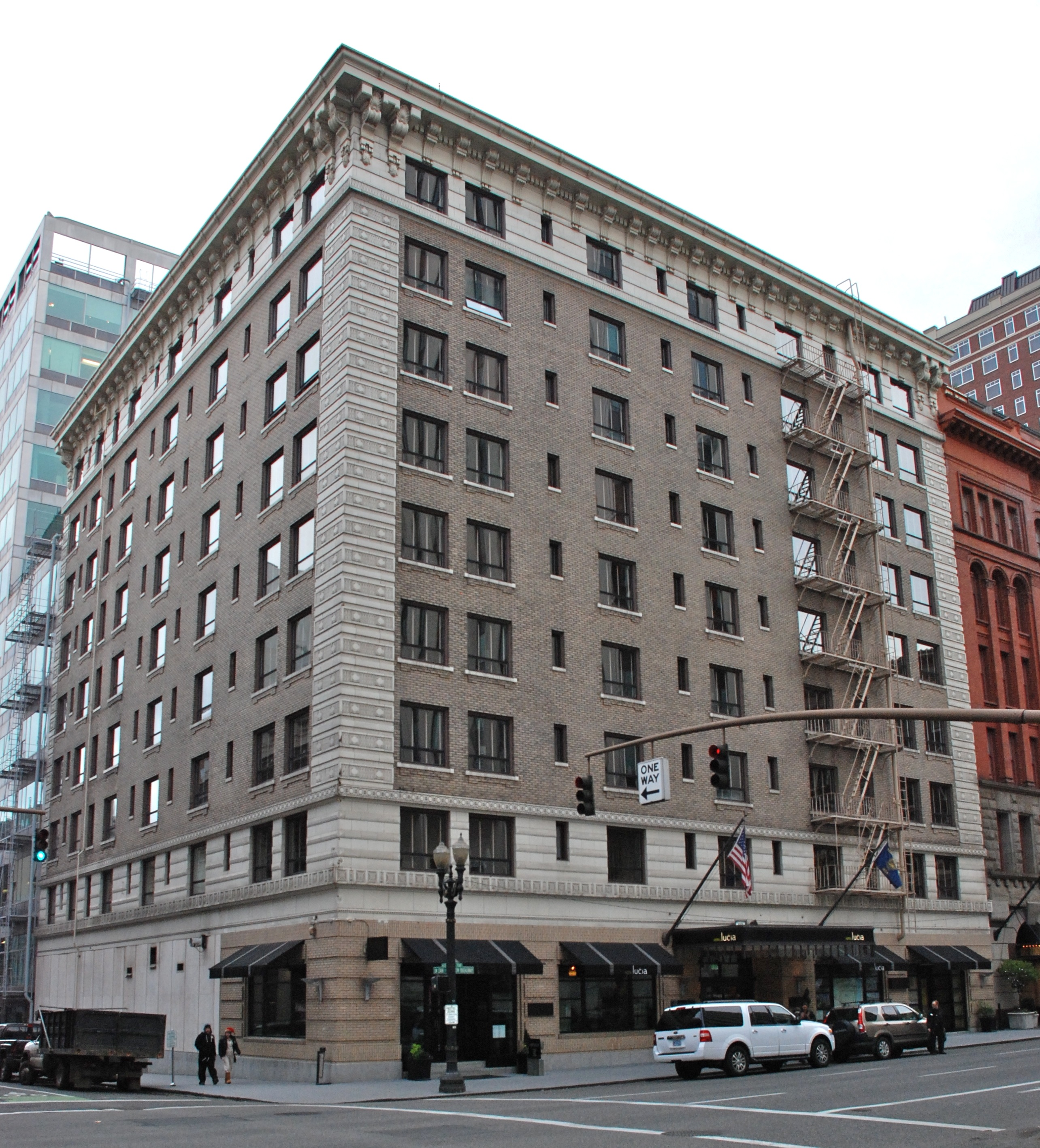 The historic New Imperial Hotel (built 1909–10), which was renamed Hotel Lucia in 2002 and is located at 400 SW Broadway in Portland, Oregon, United States, is listed on the US National Register of Historic Places. NRHP reference number 03001068